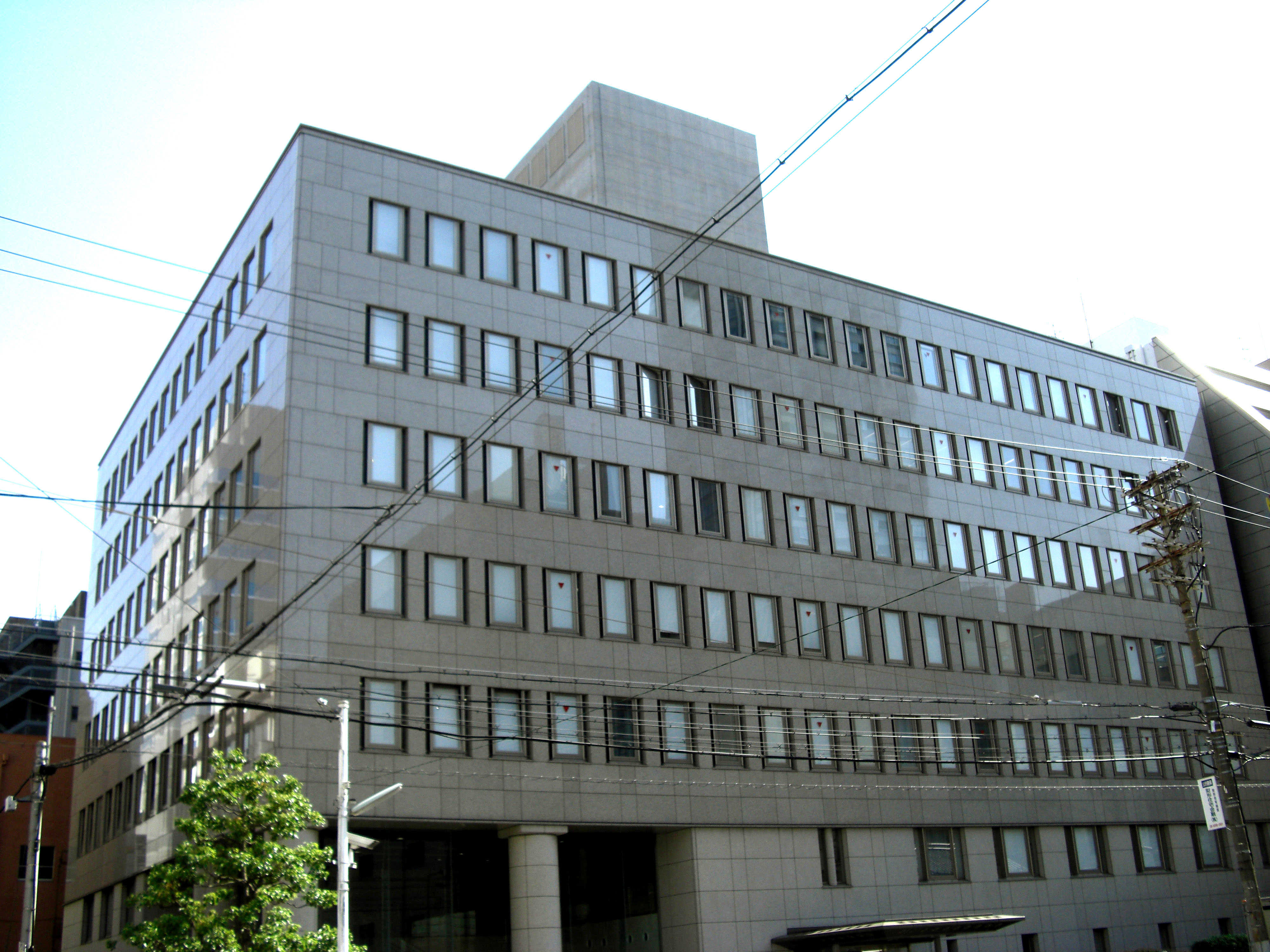 Dainippon Sumitomo Pharma headquarters - 2-6-8 Doshomachi, Chuo-ku, Osaka, Japan - Postal code 541-0045